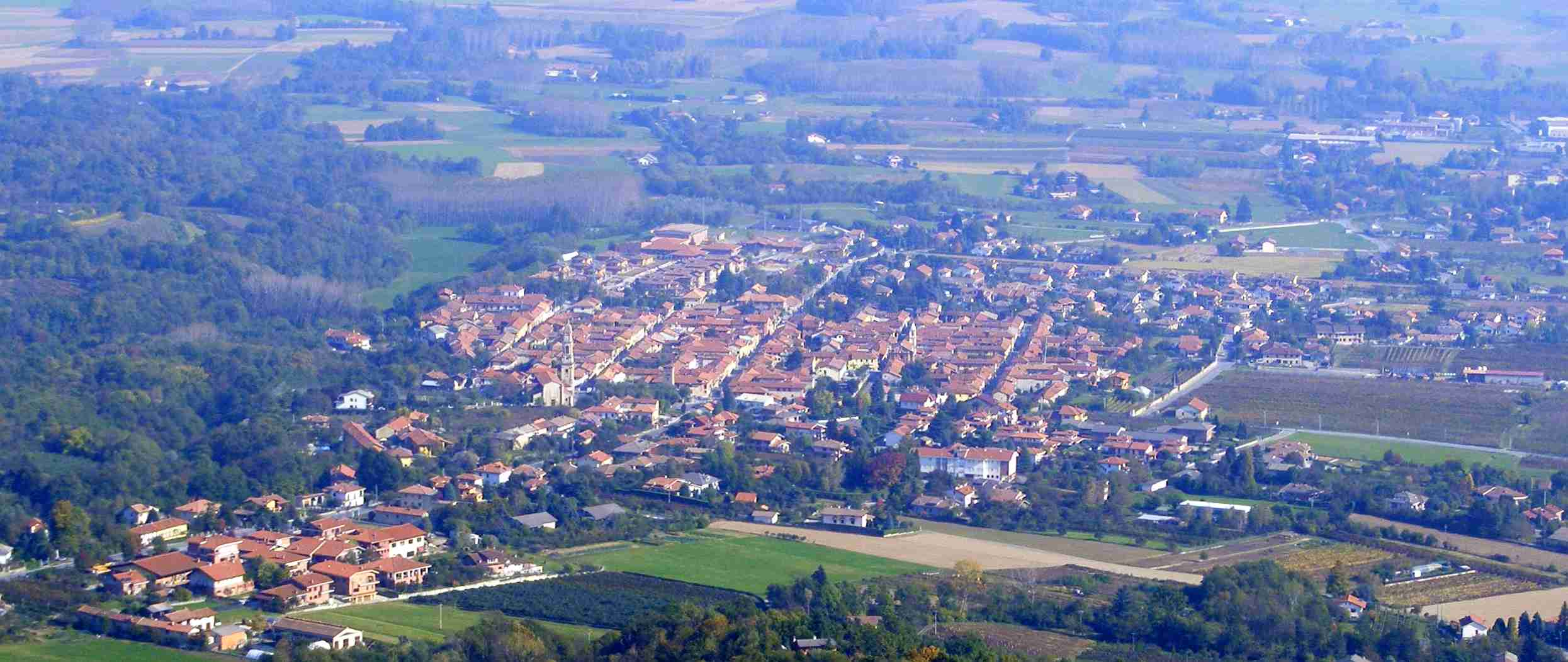 Frossasco (TO, Italy) from Rocca Vautero